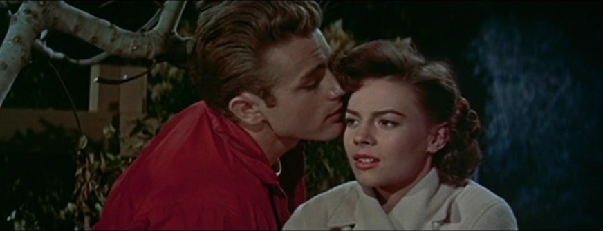 Cropped screenshot of James Dean and Natalie Wood in the trailer for the film Rebel Without a Cause